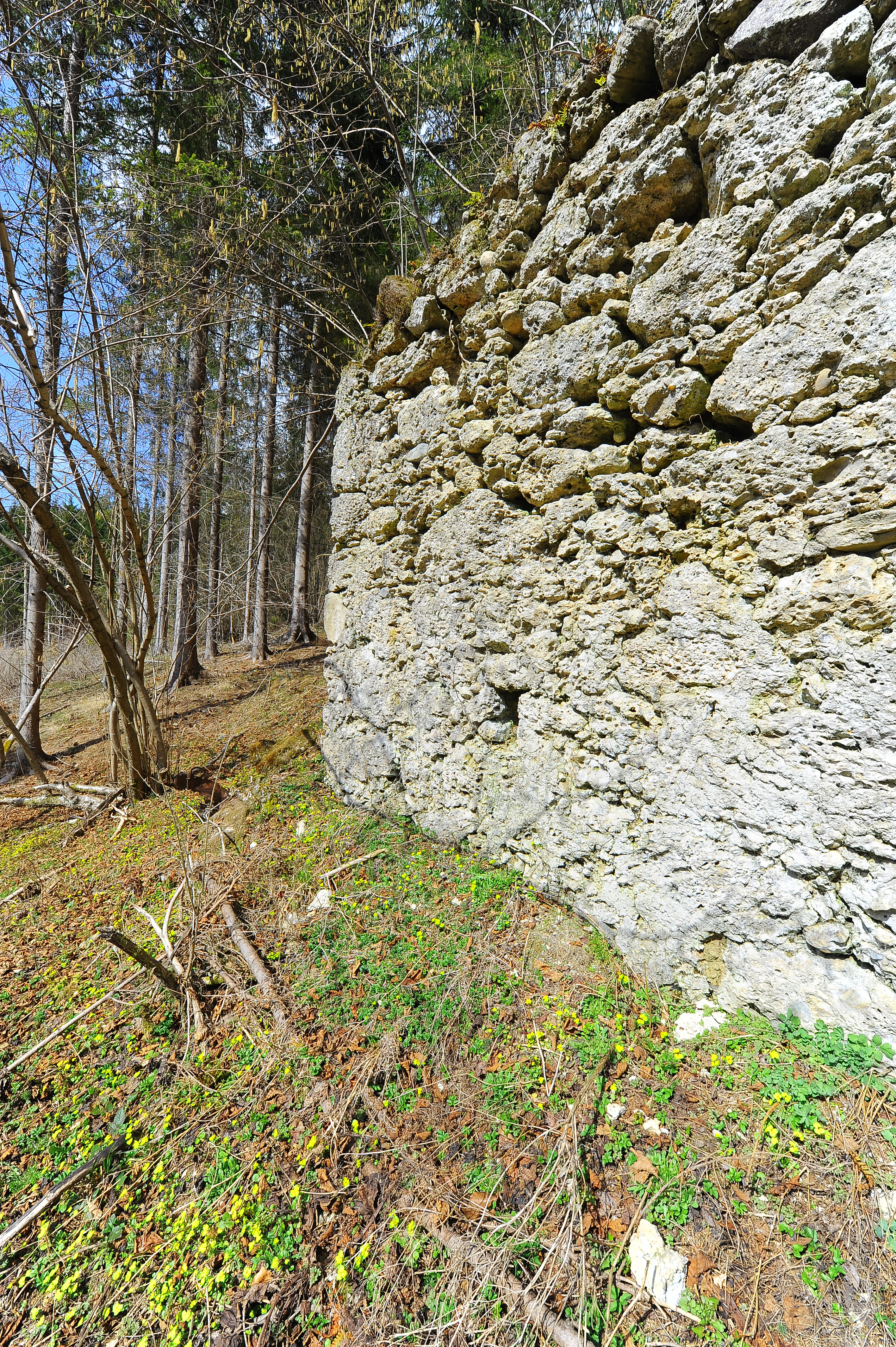 Defunct farmstead (ruin) at Spitzach in the municipality Ebenthal, district Klagenfurt Land, Carinthia, Austria, EU